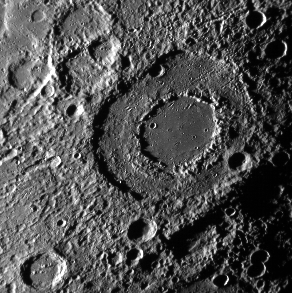 Date acquired: March 26, 2012 Image Mission Elapsed Time (MET): 241236952 Image ID: 1566240 Instrument: Narrow Angle Camera (NAC) of the Mercury Dual Imaging System (MDIS) Center Latitude: -44.13° Center Longitude: 251.5° E Resolution: 369 meters/pixel Scale: Michelangelo basin is approximately 230 km (143 mi.) in diameter. Incidence Angle: 83.6° Emission Angle: 37.6° Phase Angle: 67.5° Of Interest: Here, the peak-ringed Michelangelo basin is seen close to the terminator. Hawthorne crater (outside this image field of view past the upper right corner) may be the source of the secondary crater chains that cross through the basin. North is towards the bottom of this image. This image was acquired as a high-resolution targeted observation. Targeted observations are images of a small area on Mercury's surface at resolutions much higher than the 200-meter/pixel morphology base map. It is not possible to cover all of Mercury's surface at this high resolution, but typically several areas of high scientific interest are imaged in this mode each week.